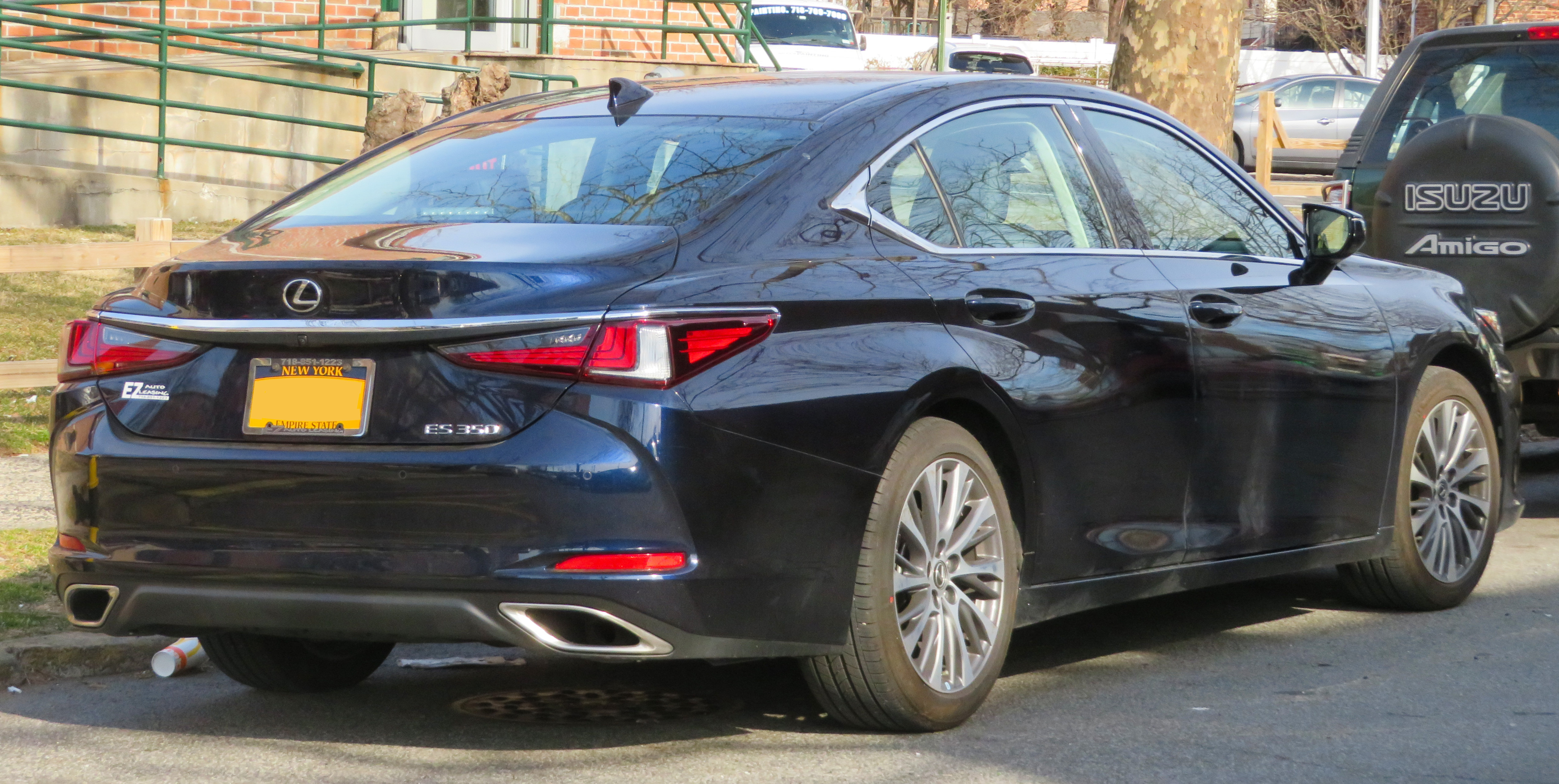 A 2019 Lexus ES 350 3.5L photographed in Queens, New York, USA